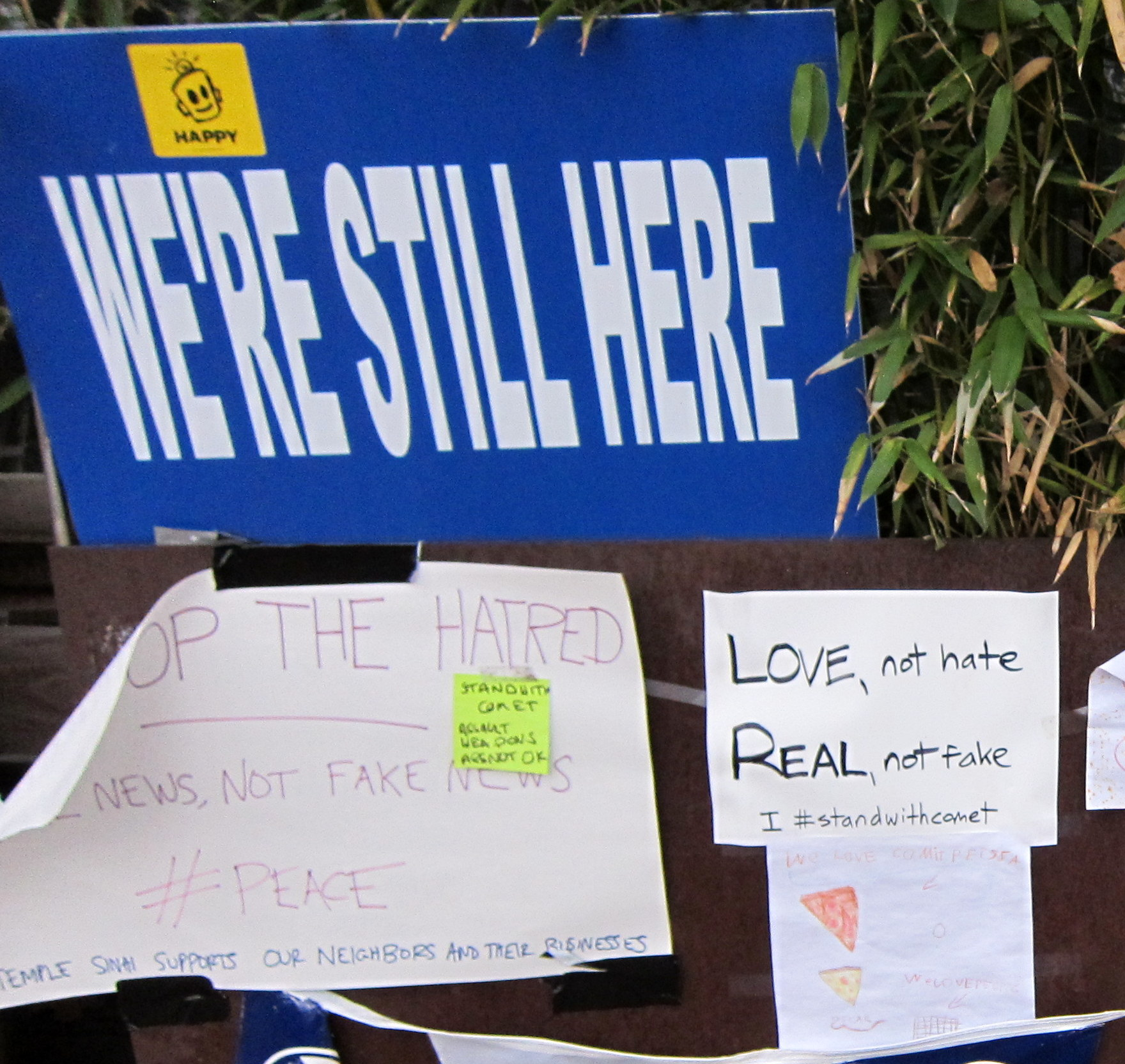 Community messages in front of Comet Ping Pong following a shooting related to the debunked Pizzagate conspiracy theory.